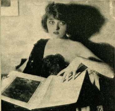 Corinne Griffith, in The Common Law, from a 1923 publication. Photo by Alfred Cheney Johnston.